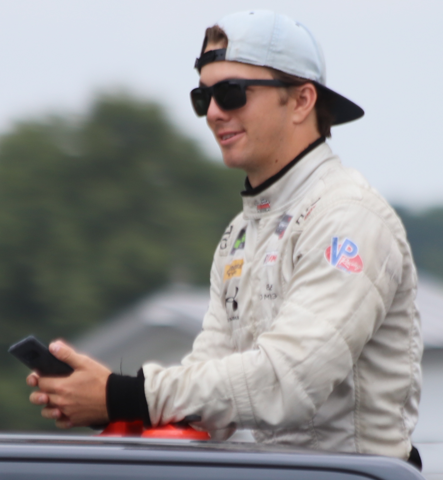 James French waves to fans during drivers introductions at Road America in 2018